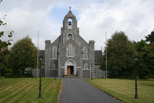 St. Michael's Church, Annyalla, Co. Monaghan